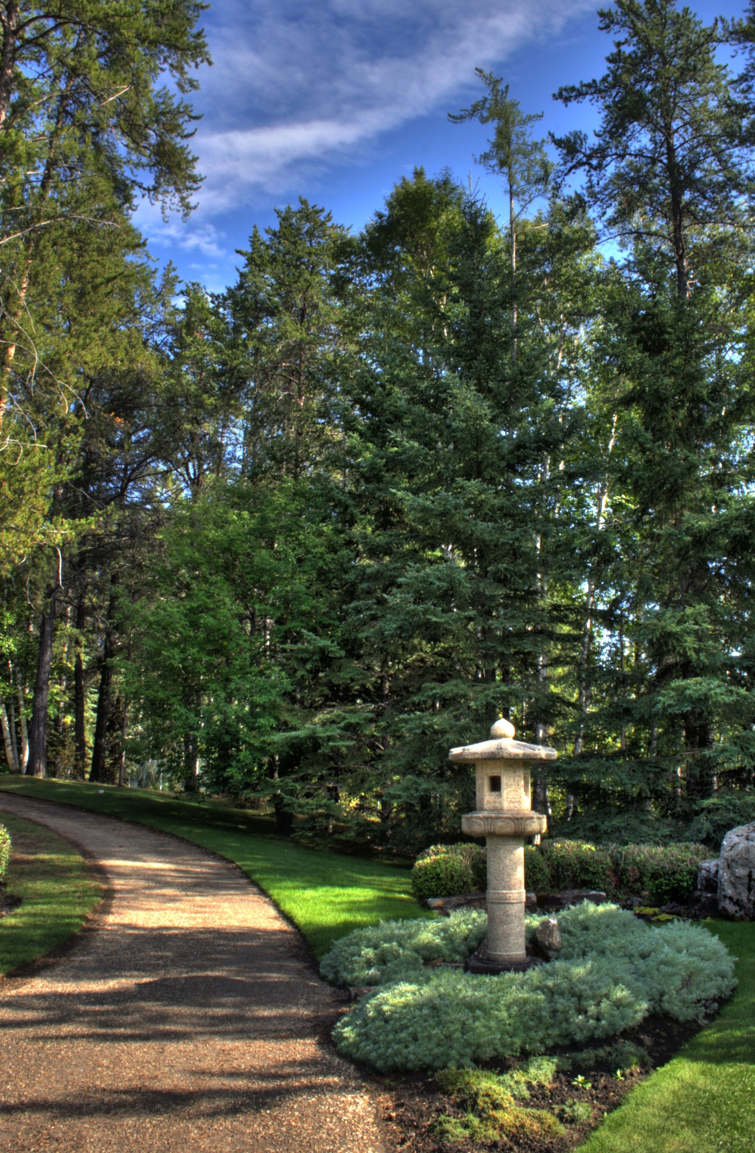 Lantern by path in Japanese Garden section of Devonian Botanical Garden, Edmonton, Alberta, Canada.